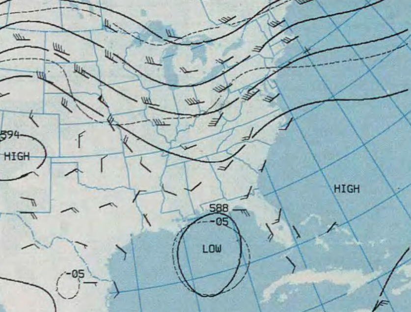 500-mb geopotential height map of Hurricane Elena near the United States, on August 30, 1985.